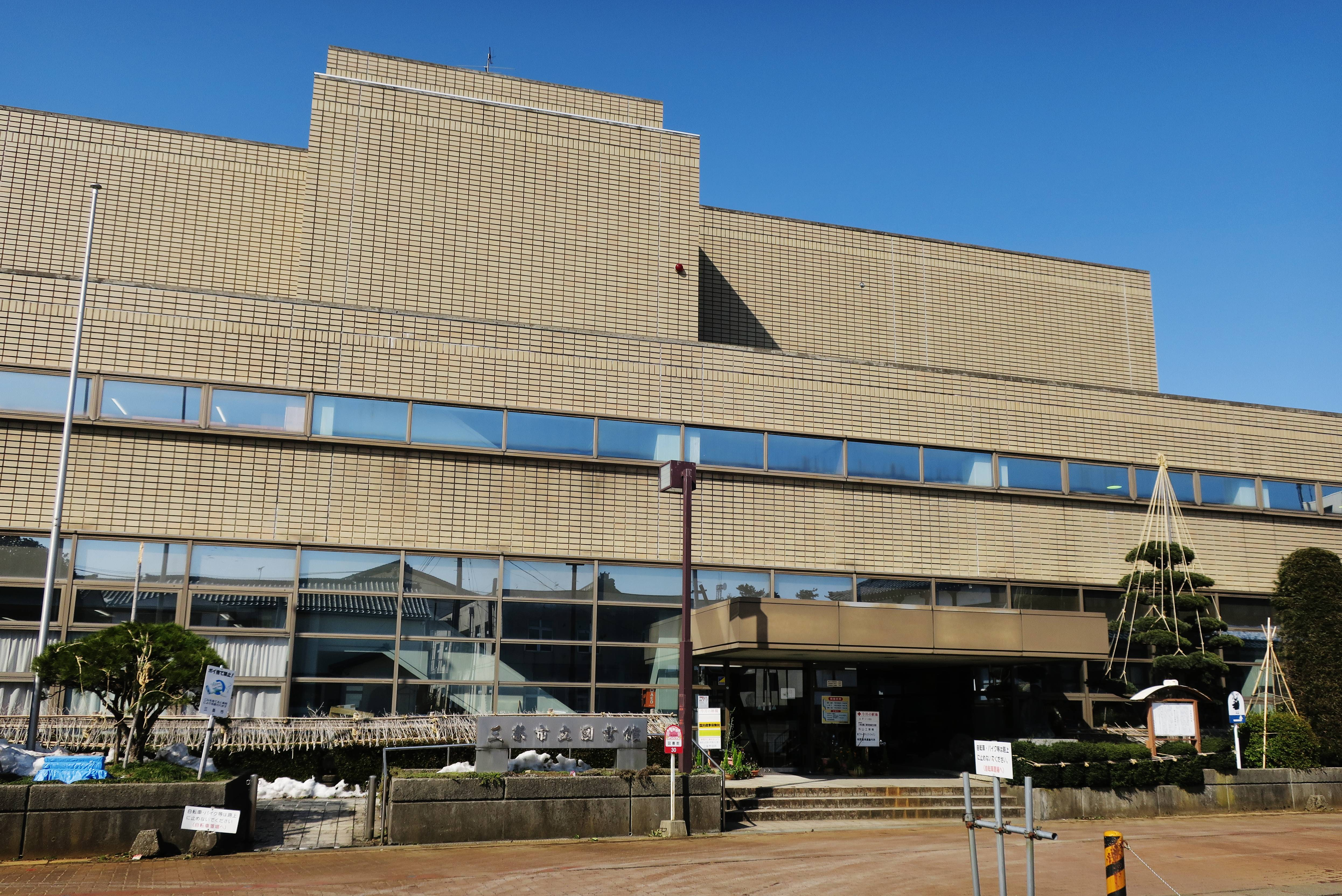 Sanjo Public Library.